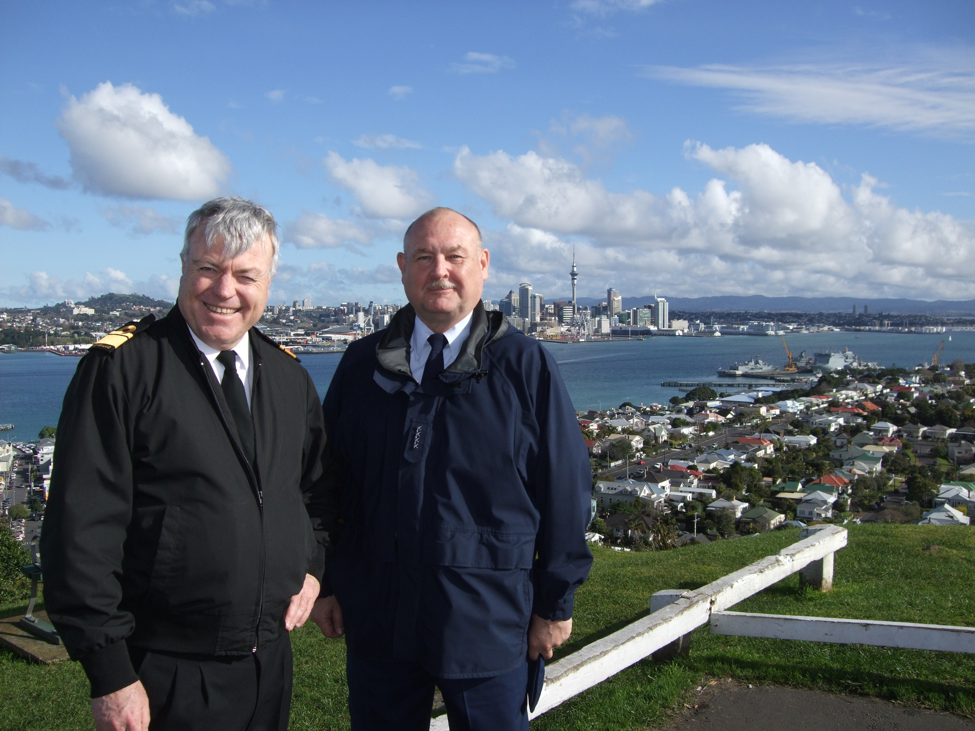 New Zealand RADM Tony Parr on historic Mount Victoria with Commandant Thad Allen